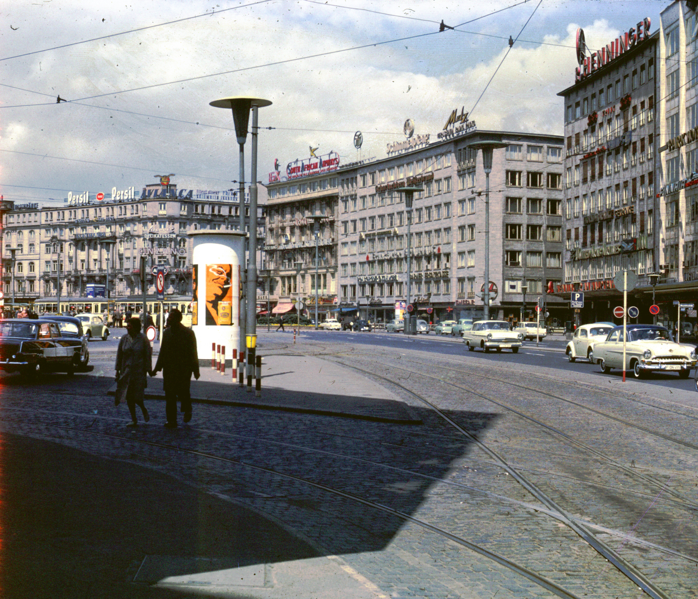 downtown frankfurt